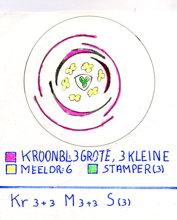 Floral diagram "Galanthus nivalis"